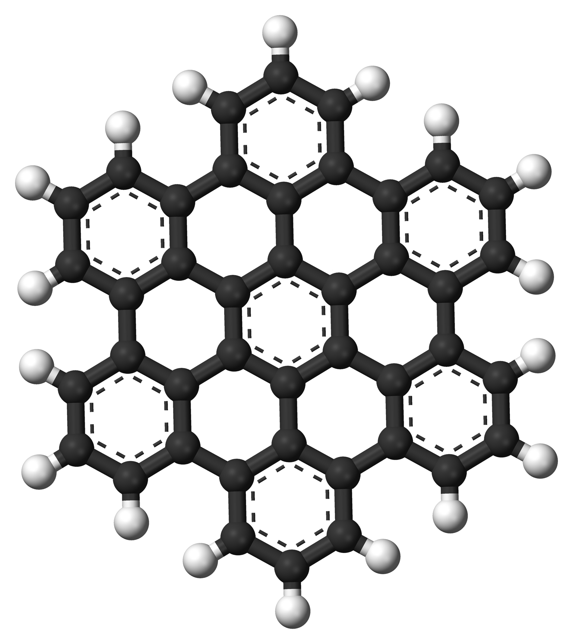 Ball-and-stick model of the hexabenzocoronene molecule.